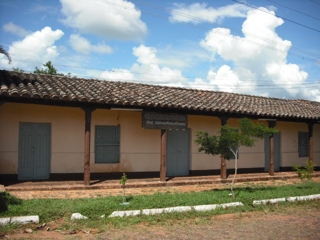 Culture's House